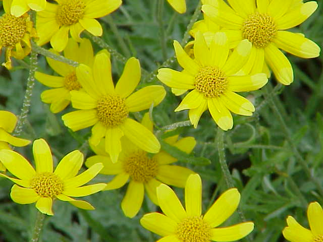 Species: Eriophyllum lanatum Family: Compositae Image No. 3